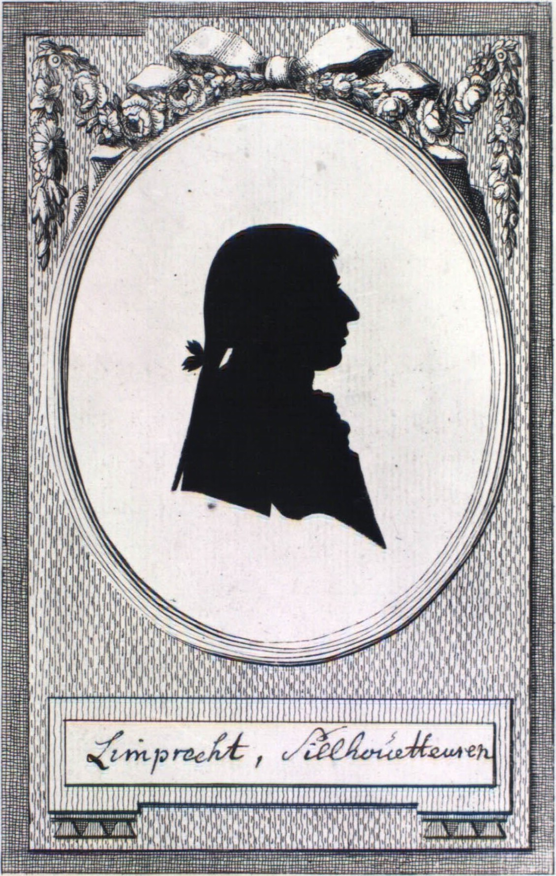 Depicted person: C. Limprecht